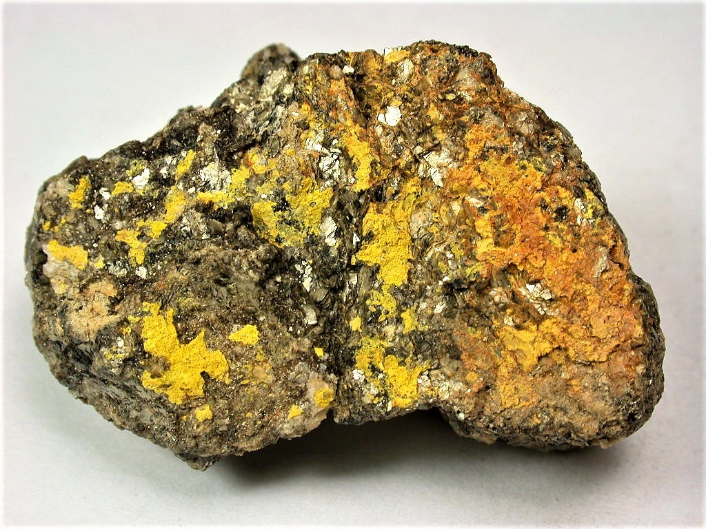 Uranospinite Dimensions: 32 mm x 21 mm x 13 mm Locality: Wild Dog Uranium Mine, Myponga, Fleurieu Peninsula, South Mt Lofty Ranges (Adelaide Hills), Mt Lofty Ranges, South Australia, Australia Yellow Uranospinite with some orange Gummite on the right. Obtained from Peter Elliott in 2017. JSS specimen and photo.